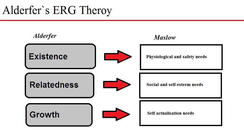 This figure contrasts Alderfer`s 3 levels of needs, to that of Maslow`s